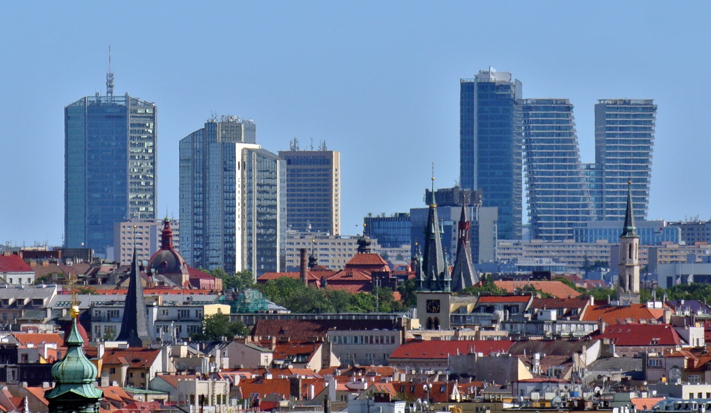 Skyscrapers in Prague in 2018 – from left: City Empiria, Corinthia Hotel, Panorama Hotel, City Tower and V Tower.